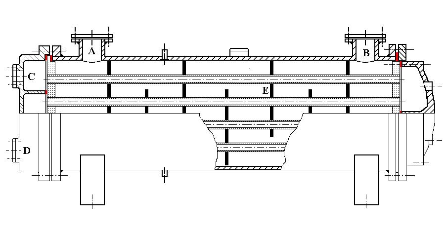 Shell heat exchanger LS